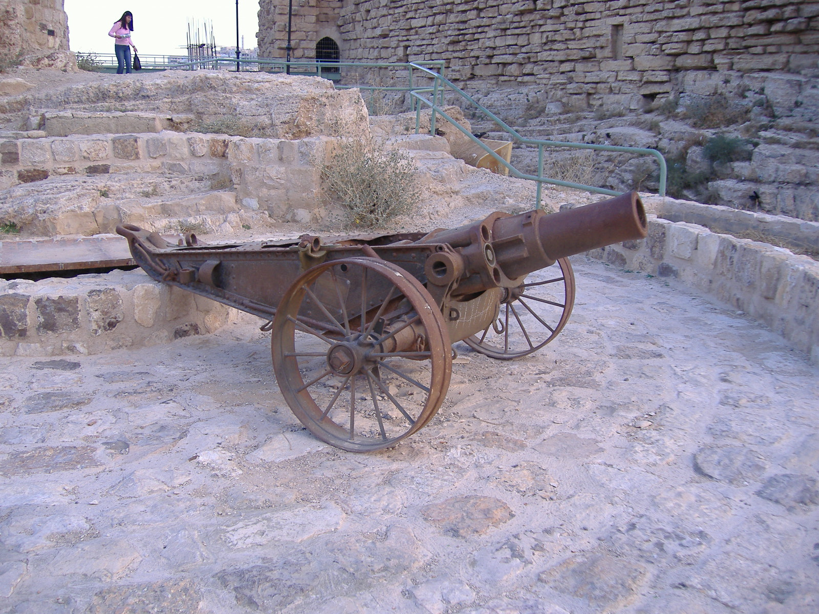 British BL 5 inch howitzer in the Kerak Castle, Jordan. Note that the original British large wooden spoked wheels have been replaced by smaller steel wheels.